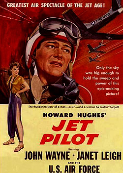 Low-res image of original poster for the film Jet Pilot (1957), featuring stars John Wayne and Janet Leigh